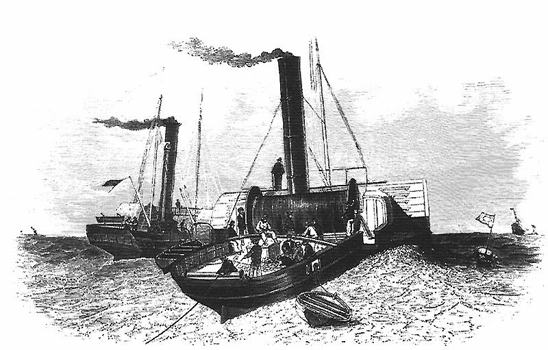 The cableship "Goliath" laying the 1st submarine cable France-England.